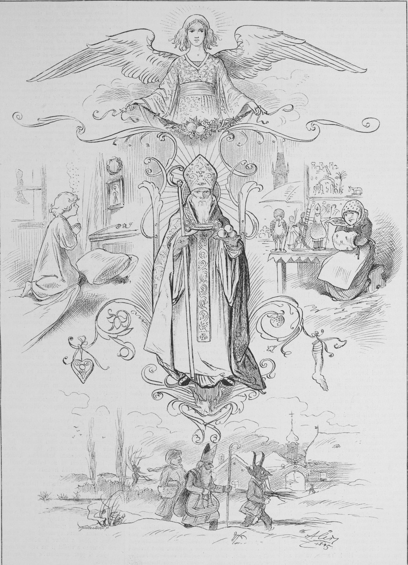 Traditional celebrations of Saint Nicholas Day in Bohemia